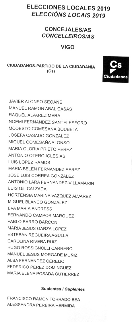 See title.